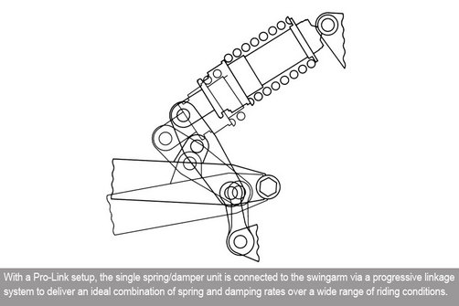 Sketch of the Honda Pro-Link suspension